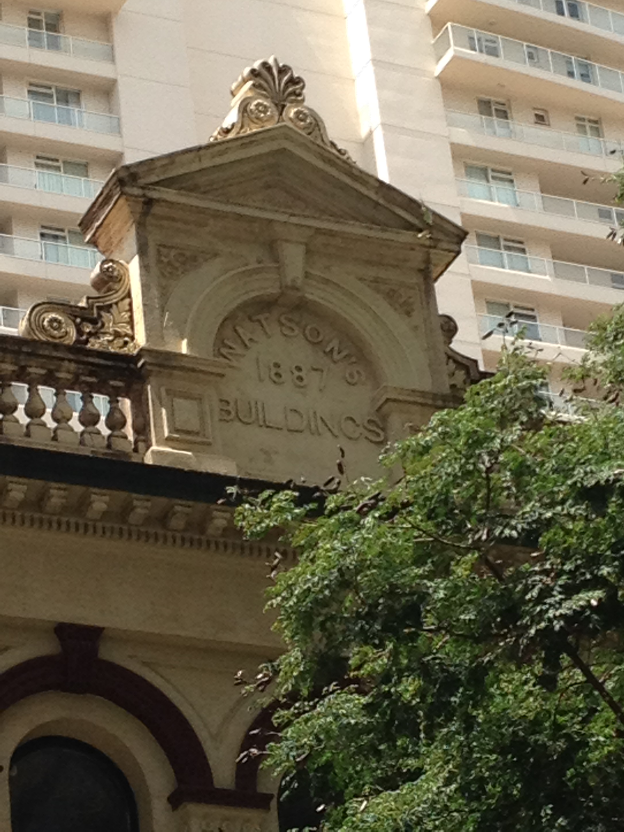 Watson's Building, Margaret Street, Brisbane